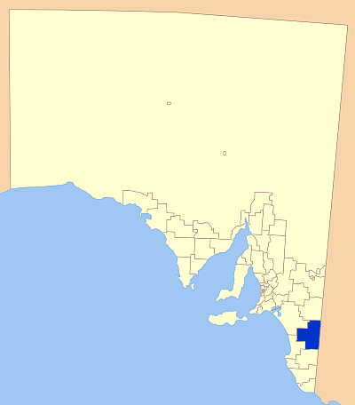 Modification of Astrokey44's original map found here: File:SA_LGA_blank.png Position of Coober pedy LGA